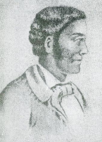 A person of color from Saint-Domingue (Haiti); an abolitionist, soldier and righthand man of Vincent Ogé, apart of the revolt of 1790 that foretold the massive slave uprising of August 1791 that began the Haitian Revolution.